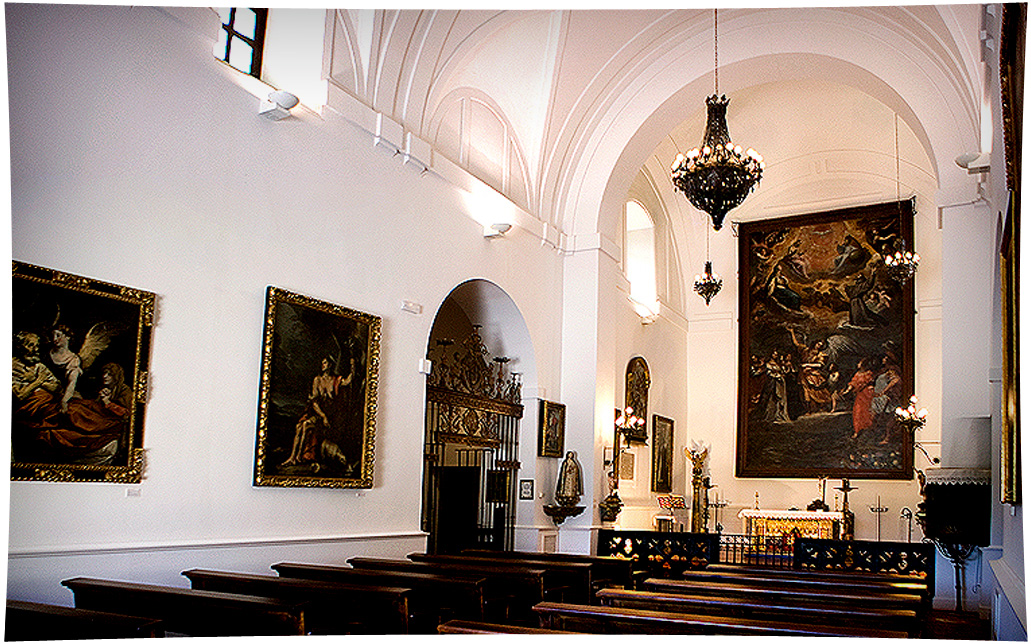 Holy Guardian hermitage at Toledo